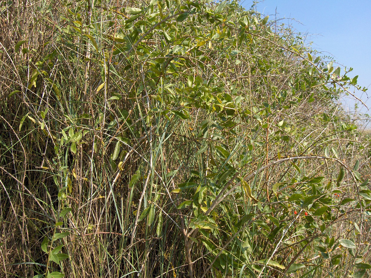 Species Lycium barbarum Family Solanaceae